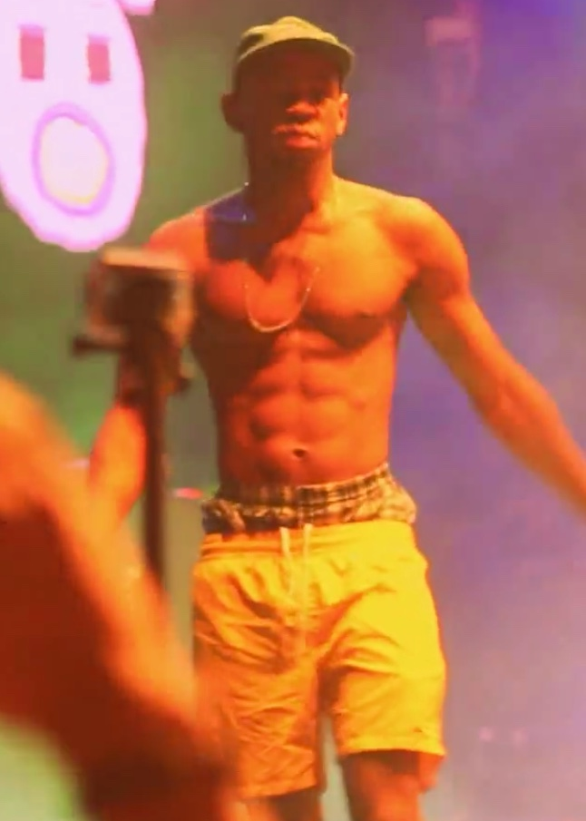 Tyler, the Creator performing in Moscow, 2015